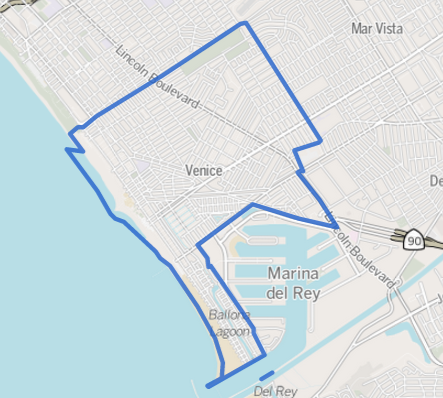 Boundary map of Venice — a community on Santa Monica Bay in western Los Angeles, California. This map may be incomplete, and may contain errors. Don't rely solely on it for navigation.